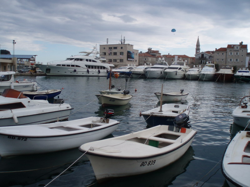 On the pier of Budva.